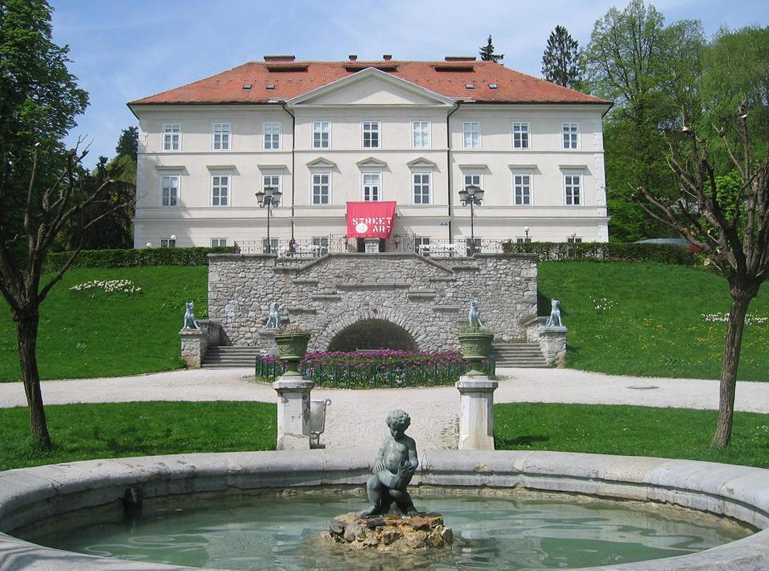 In the front, Boy with a Fish. Tivoli City Park, Ljubljana. The sculpture in a replica (1989) of a 1870 fountain. Behind it stand the four dogs, work of Dominik Fernkorn (1813-1878). In the background, Tivoli Castle, built in the 17th century.